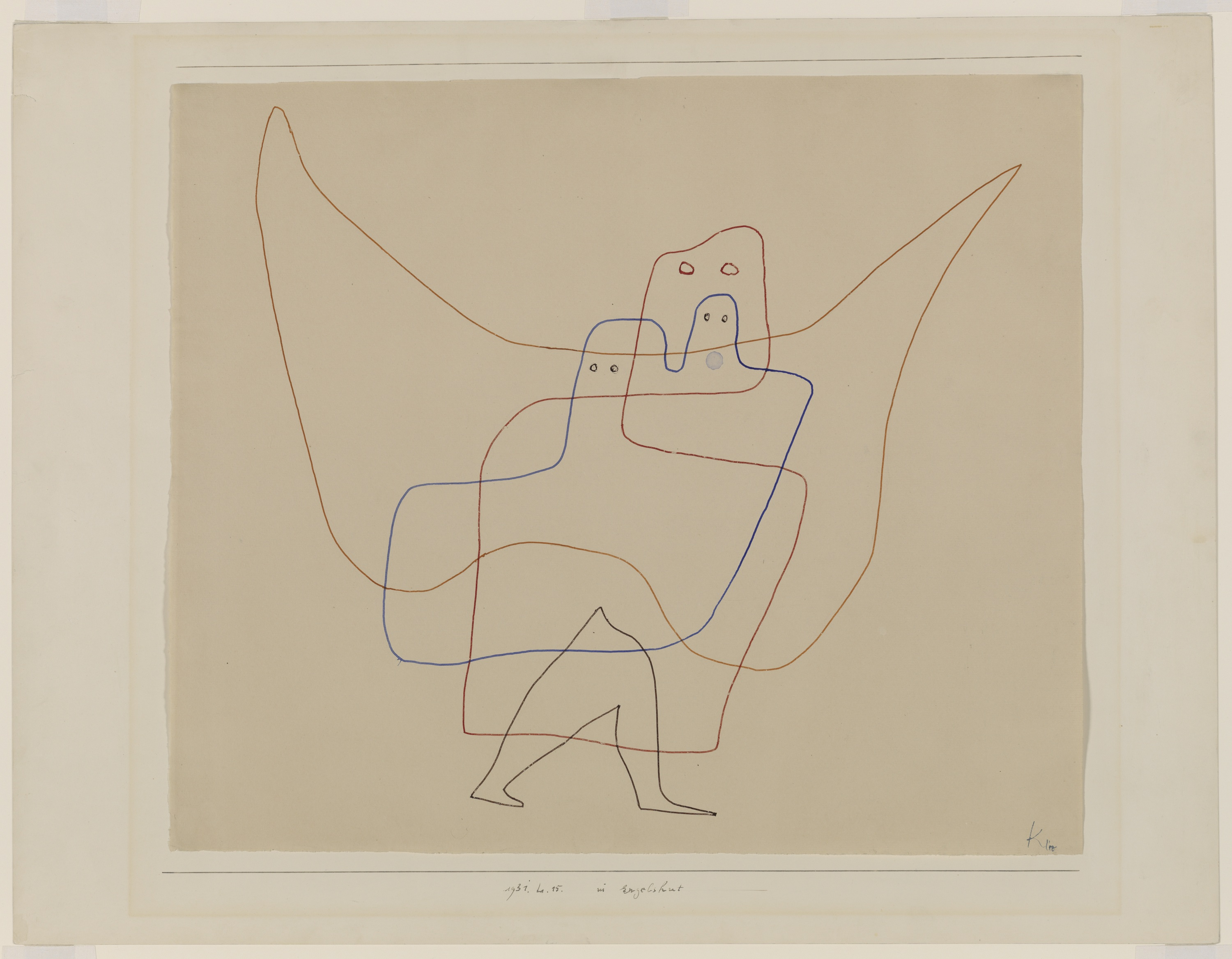 This file was provided to Wikimedia Commons by the Solomon R. Guggenheim Museum as part of a cooperation project. The Solomon R. Guggenheim Museum provides images depicting artworks which are public domain or licensed under a free license.